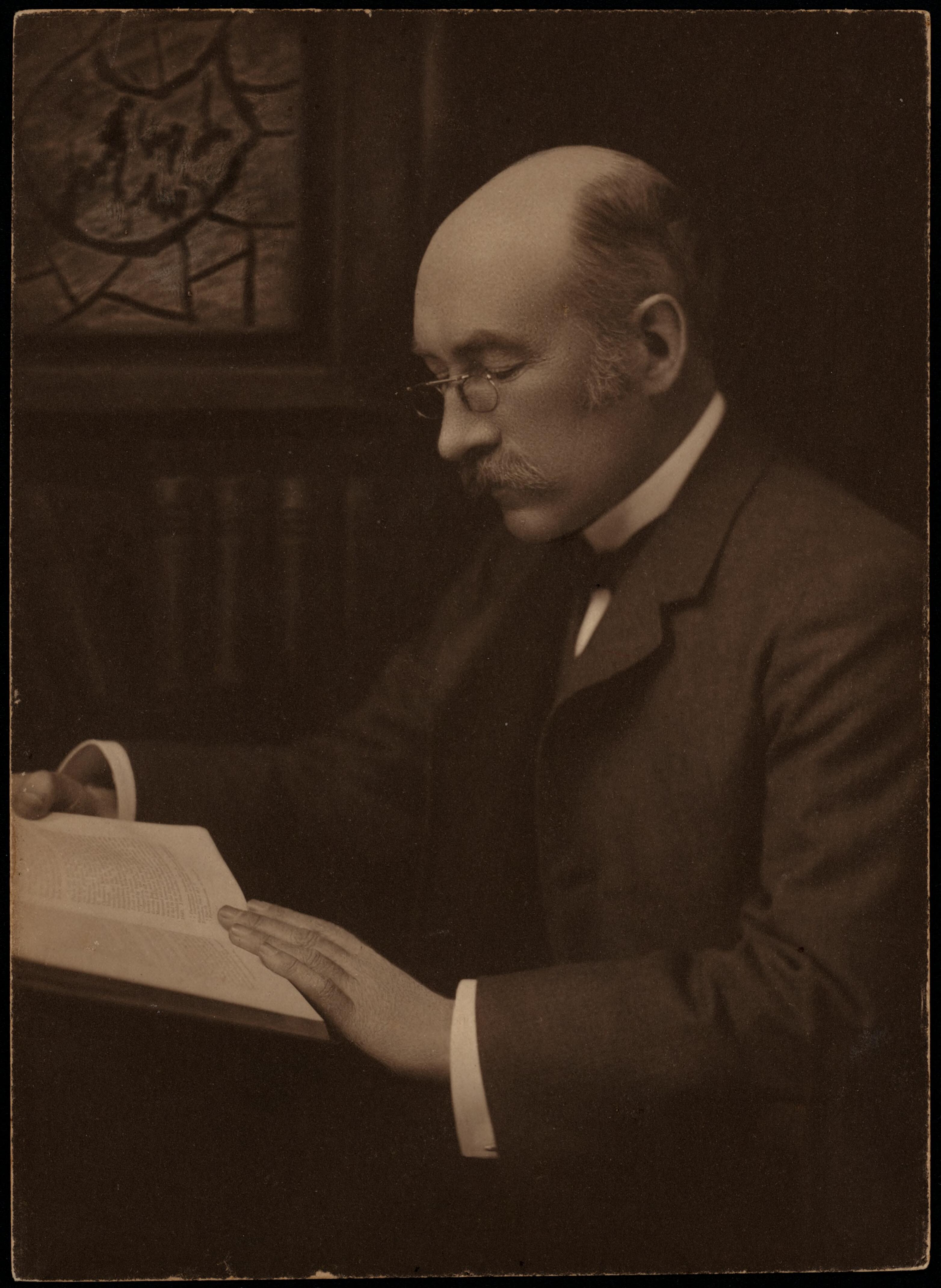 Henry Bournes Higgins, Australian judge and politician